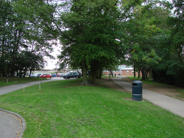 Campsmount School, Campsall.